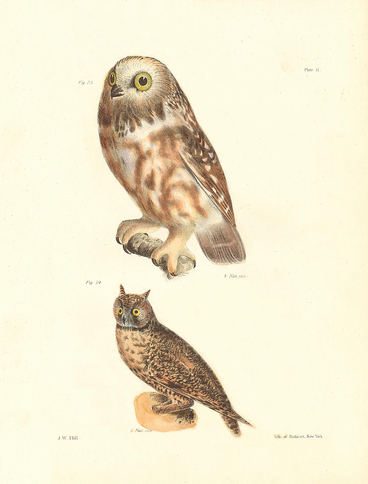 Zoology of New York, or the New-York Fauna, Part II, Birds